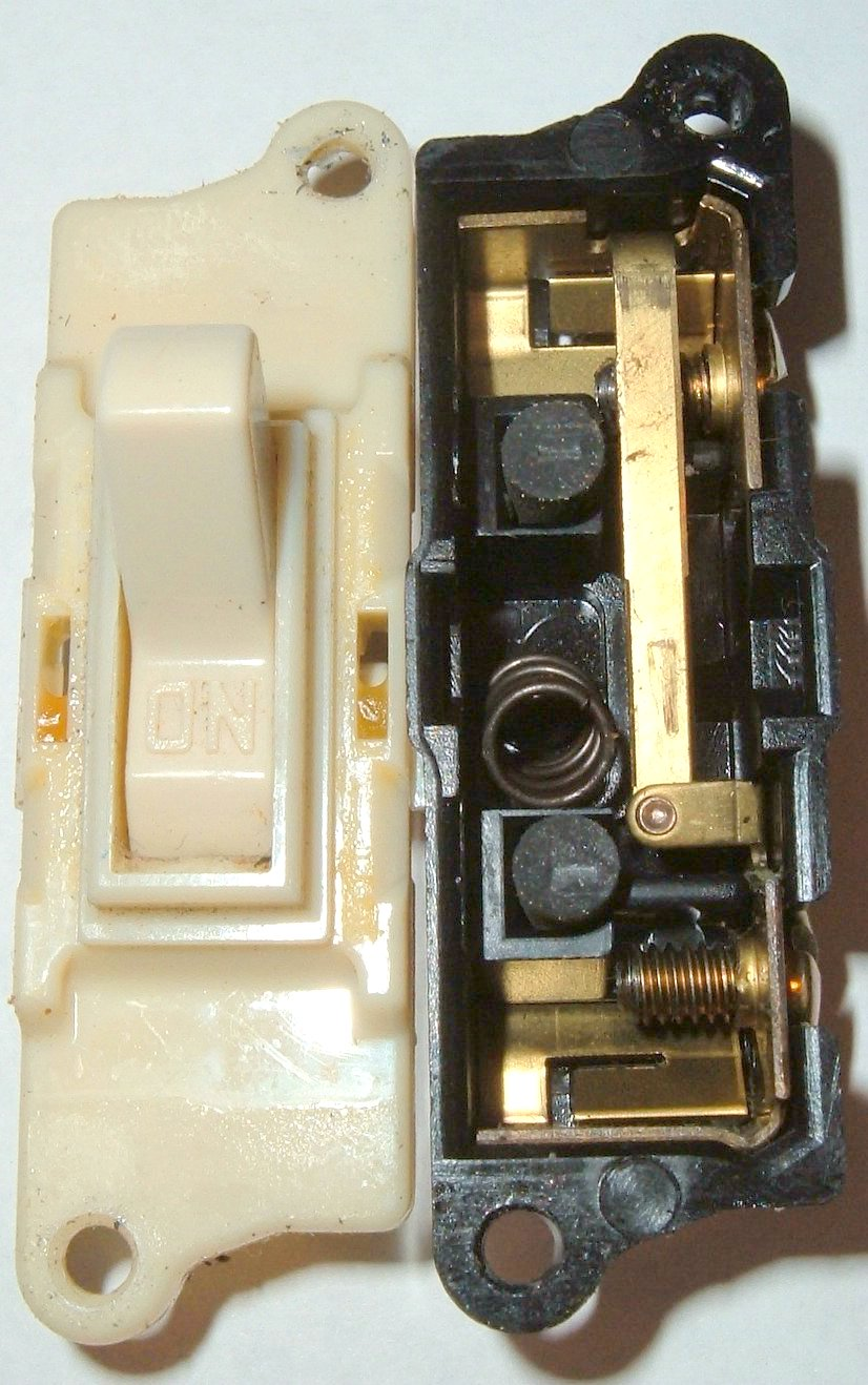 Opened light switch